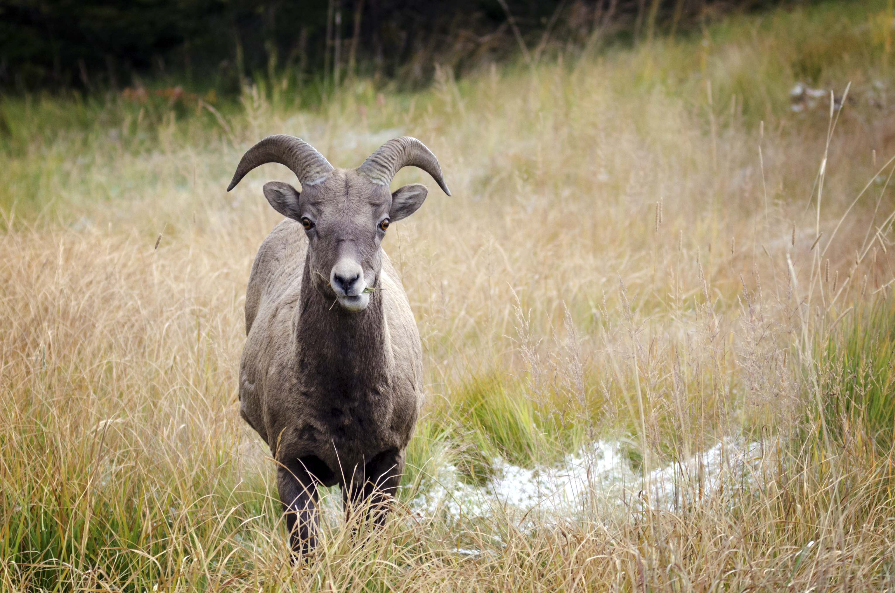 Bighorn Sheep in autumn Kananaskis country, Alberta, Canada